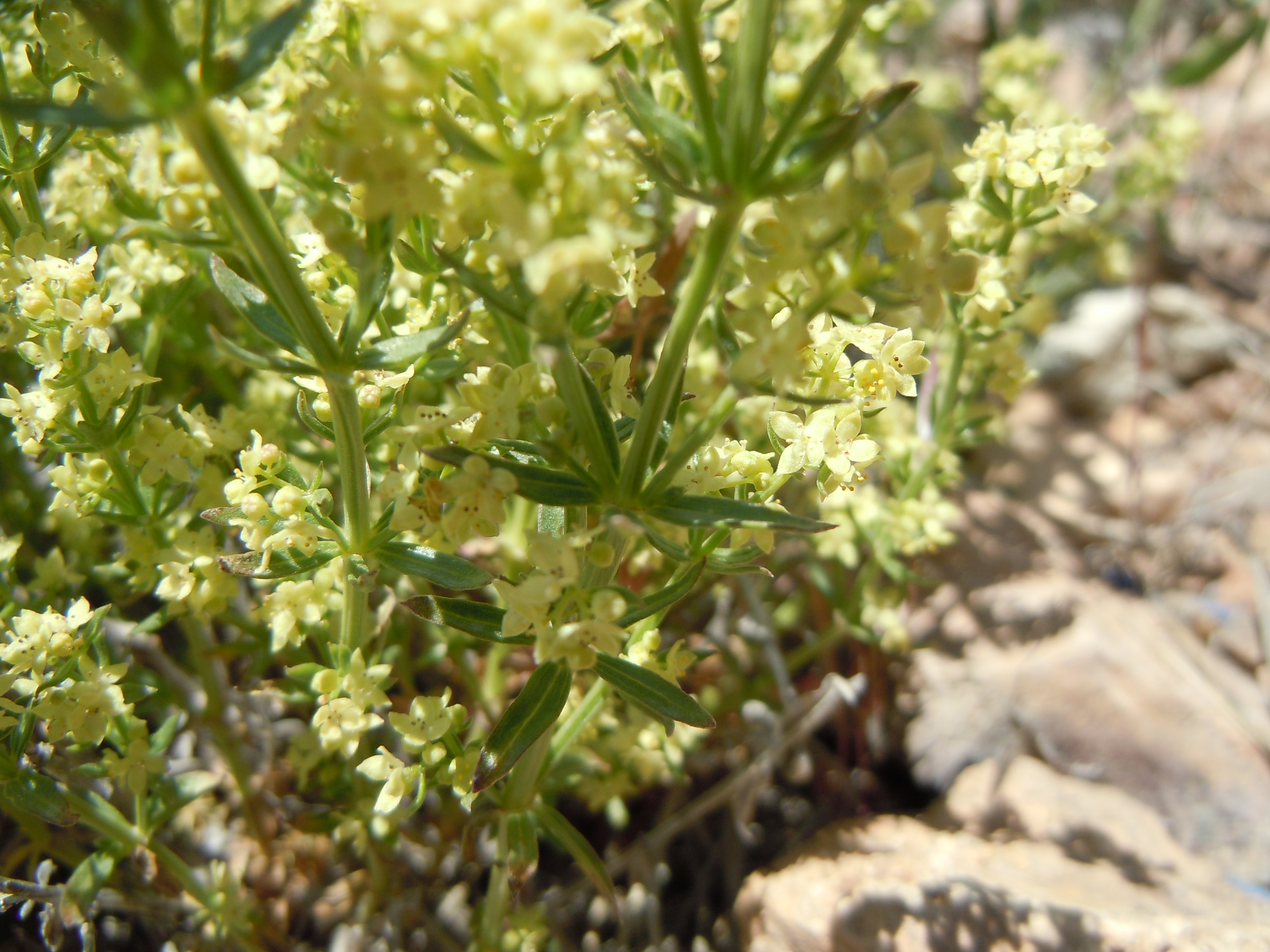 Galium multiflorum is most common along roadsides and on talus slopes of this area in otherwise open dry sites in or adjacent to sagebrush steppe.